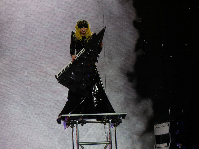 Lady Gaga performing Money Honey at Nashville, United States in the Monster Ball tour